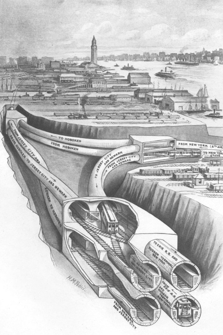 A 1909 diagram, as though looking northeast, of the Hudson and Manhattan Railroad (now PATH).